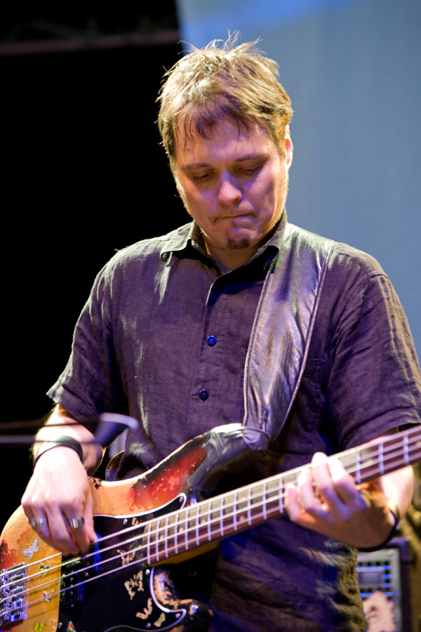 Trevor Dunn at moers festival 2012